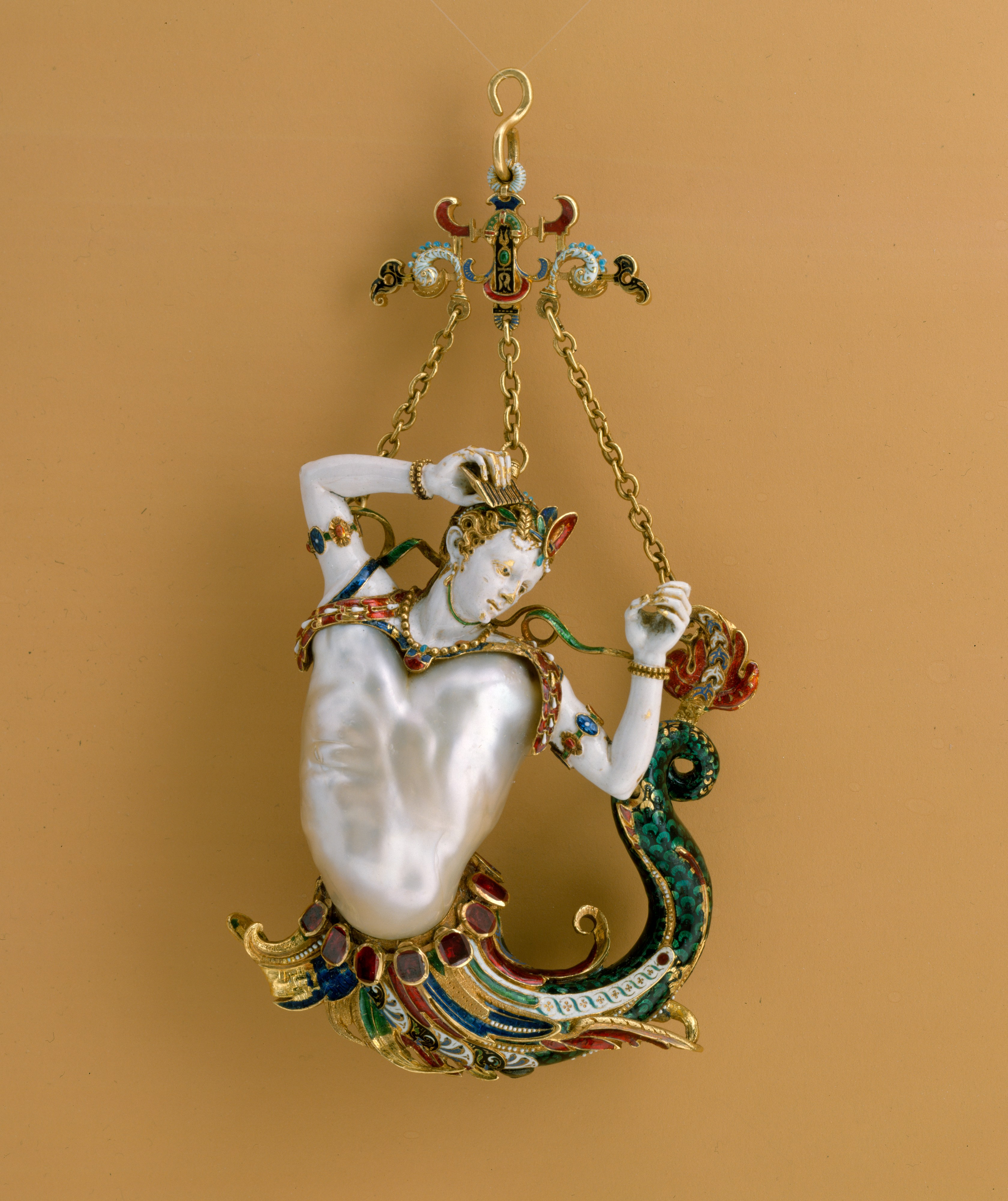 European; Pendant; Metalwork-Gold and Platinum